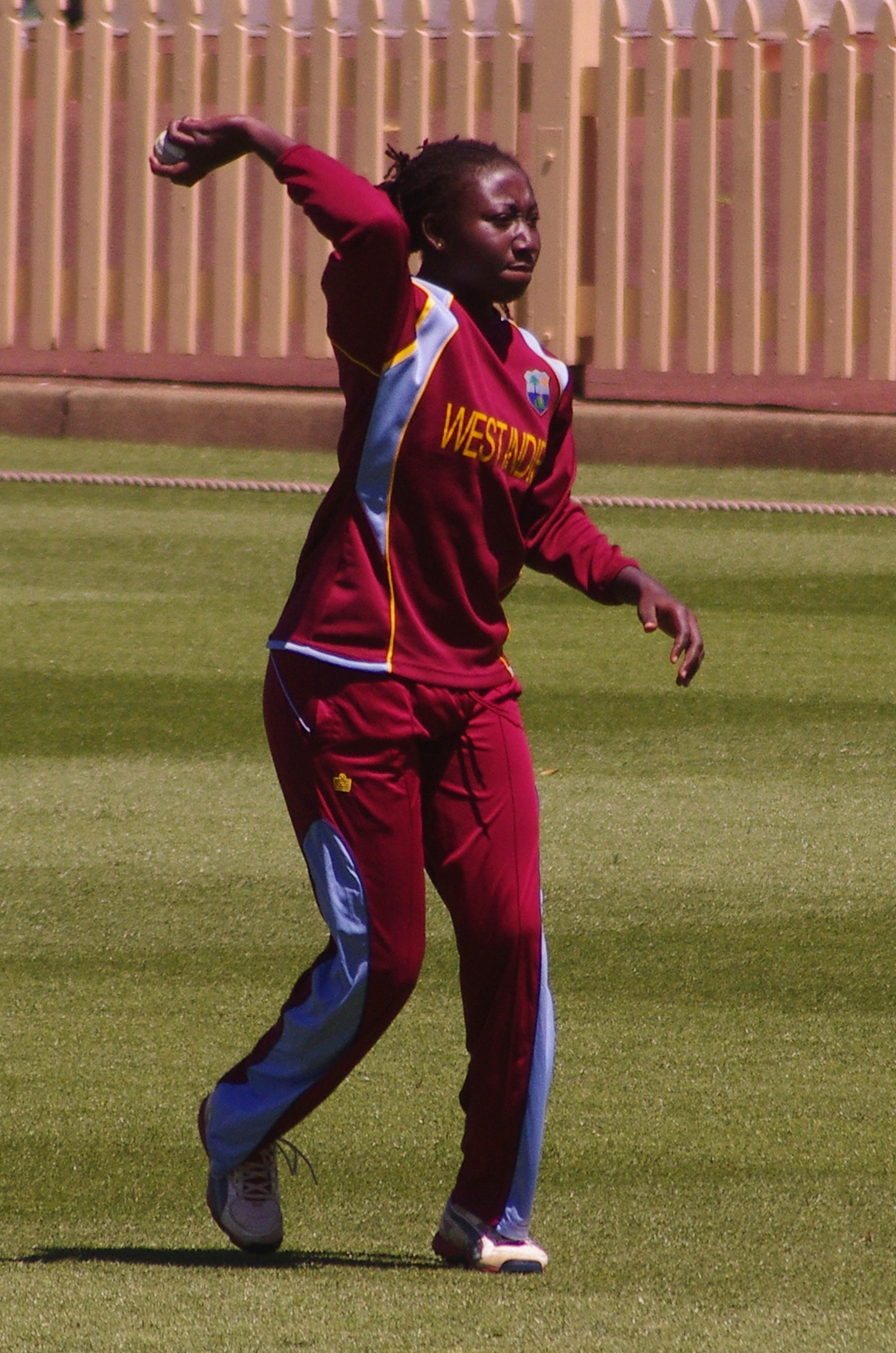 STEFANIE TAYLOR